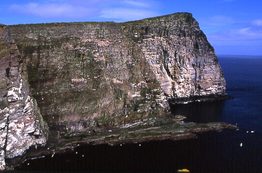 Noup of Noss, Shetland, Scotland The 180-metre (600-foot) cliffs at the Noup of Noss are a breeding site for many thousands of seabirds including Gannets and Puffins